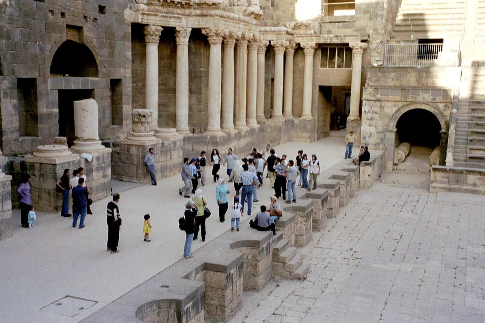 Old Theater in Bosra, Syria. Picture taken in June, 2001, with an automatic Olympus mju:zoom140 camera.